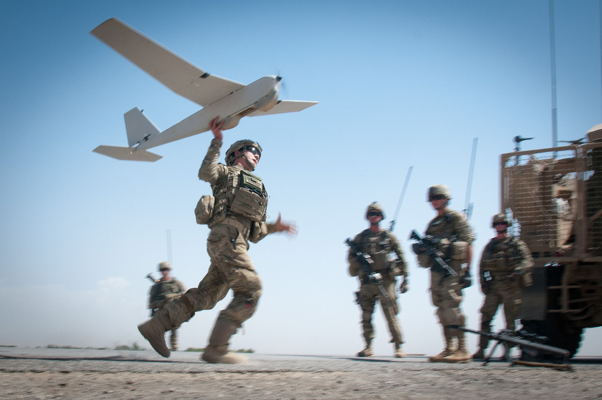 U.S. Army Chief Warrant Officer 2 Dylan Ferguson, a brigade aviation element officer with the 82nd Airborne Division's 1st Brigade Combat Team, launches a Puma unmanned aerial vehicle June 25, 2012, Ghazni Province, Afghanistan. Ferguson uses the Puma for reconnaissance for troops on the ground.